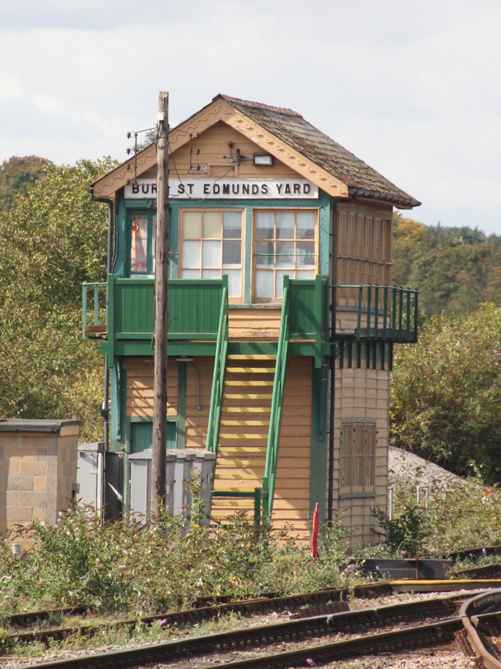 Bury St Edmunds Yard Signal Box towers above the tracks by the goods yard at the west end of the passenger station.